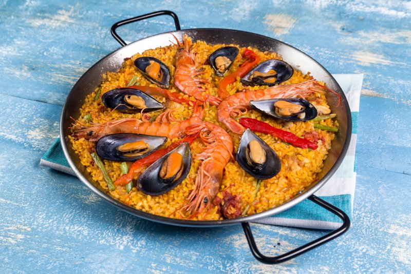 Spanish paella